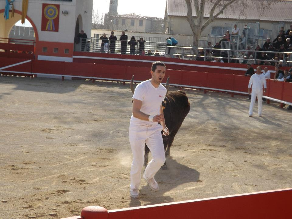 Le raseteur Hadrien Poujol lors d'une course à Aimargues, le dimanche 3 mars 2013 à l'occasion de l'Hommage à Fanfonne Guillierme.